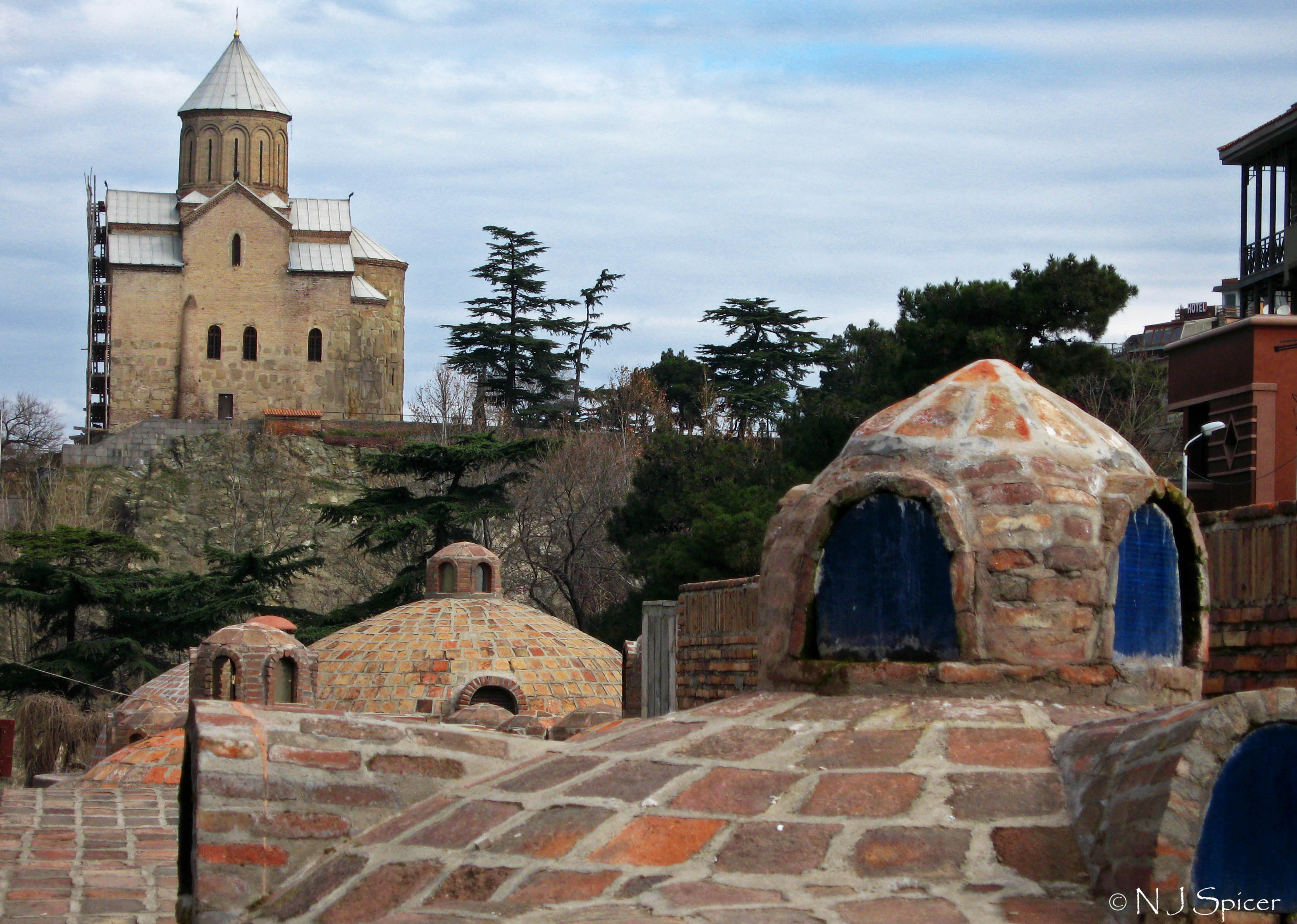 Metekhi church seen across the bathes of Abanotubani. Tbilisi, Georgia